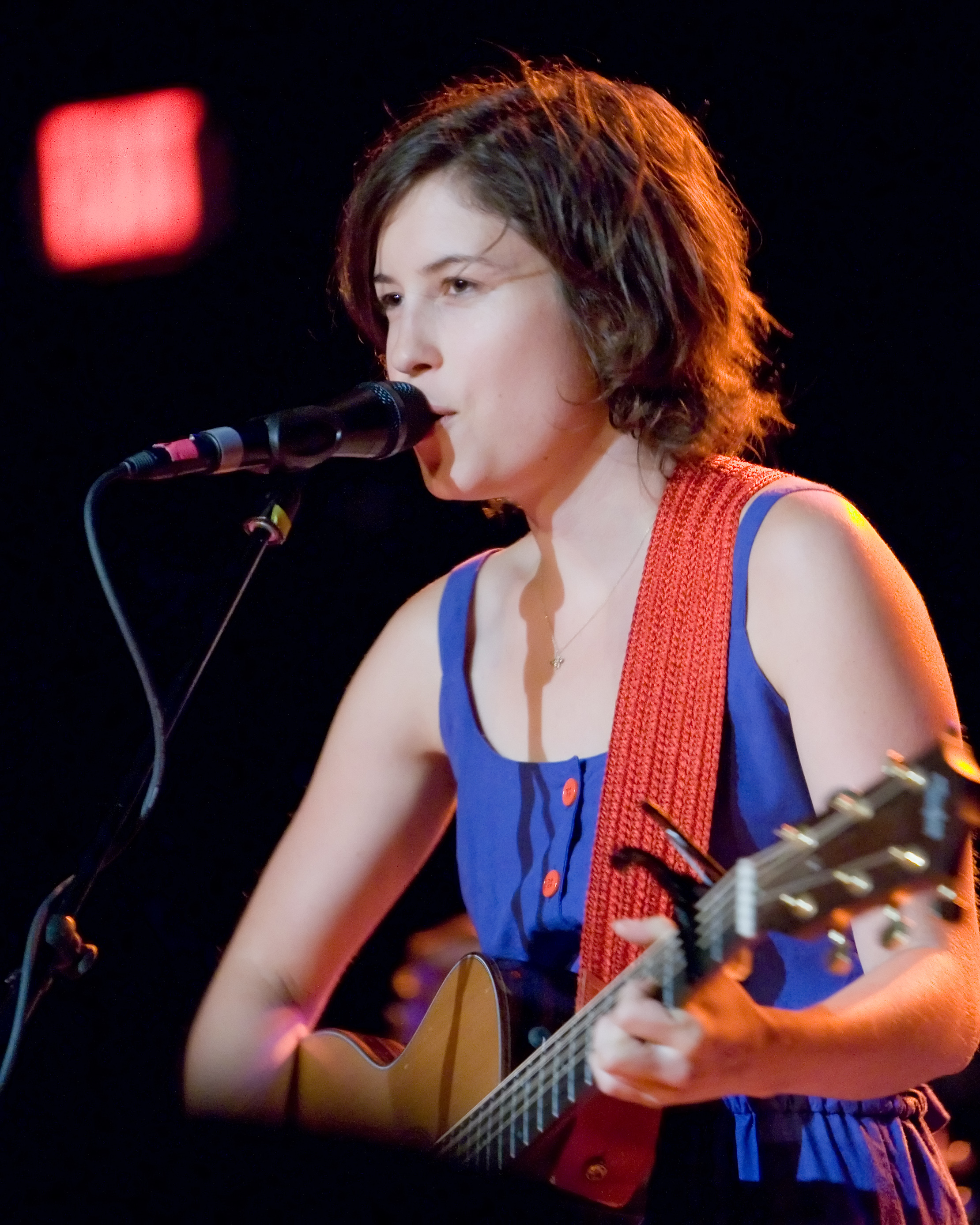 Australian singer/songwriter Missy Higgins at the Majestic Theater on a Thursday evening. 500 of her enthusiastic fans showed up. And one old guy with a big Canon.